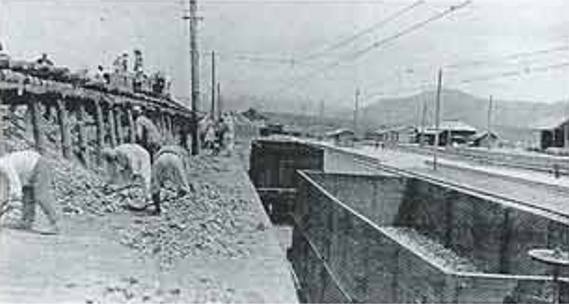 Freight cars being loaded at Changdo station on the Kumgangsan Electric Railway during the Japanese rule of Korea.